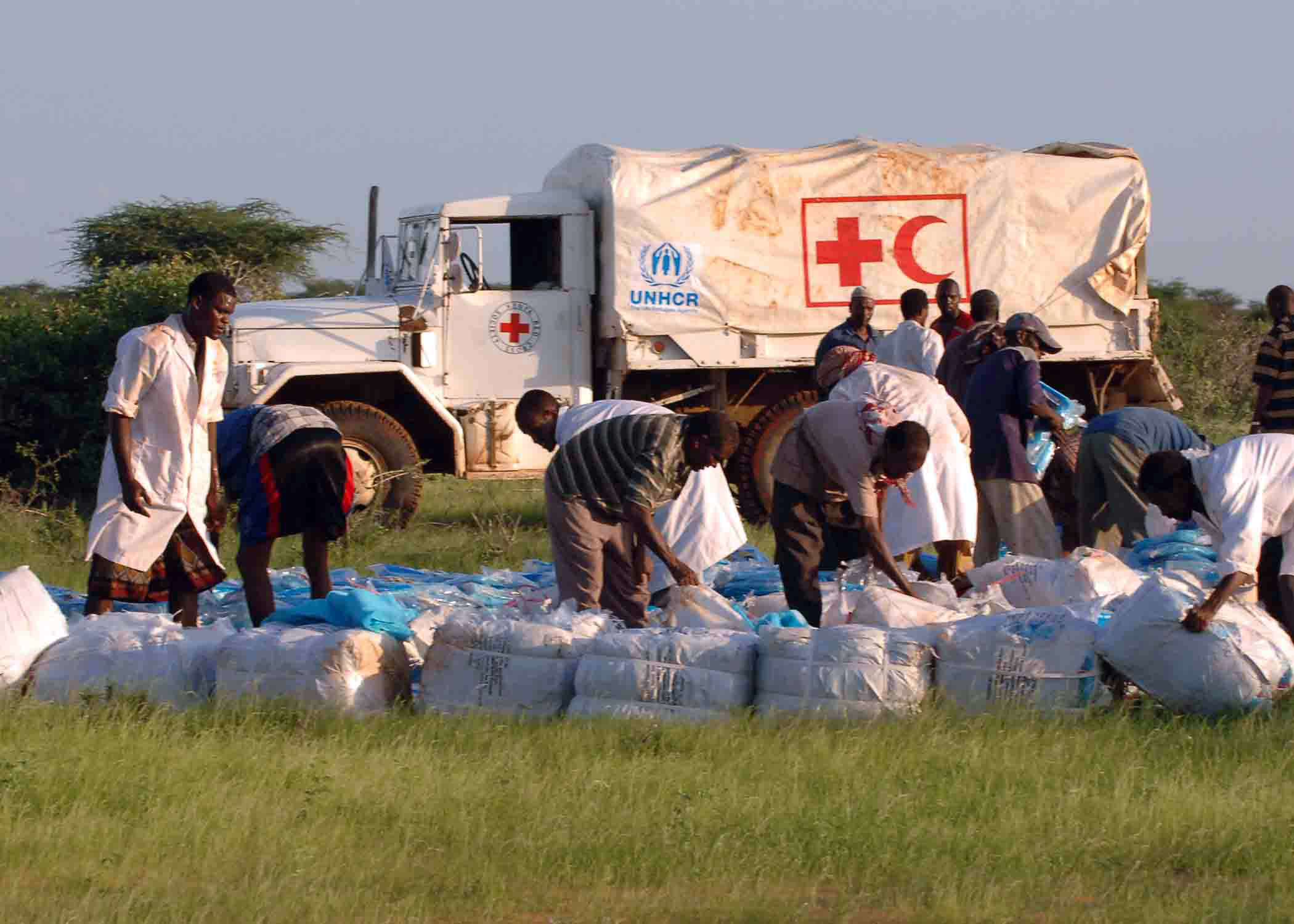 Workers from the United Nations High Commissioner for Refugees, UNHCR, and CARE gather bundles of shelters and mosquito nets that have been dropped from a U.S. Air Force C-130 cargo plane.